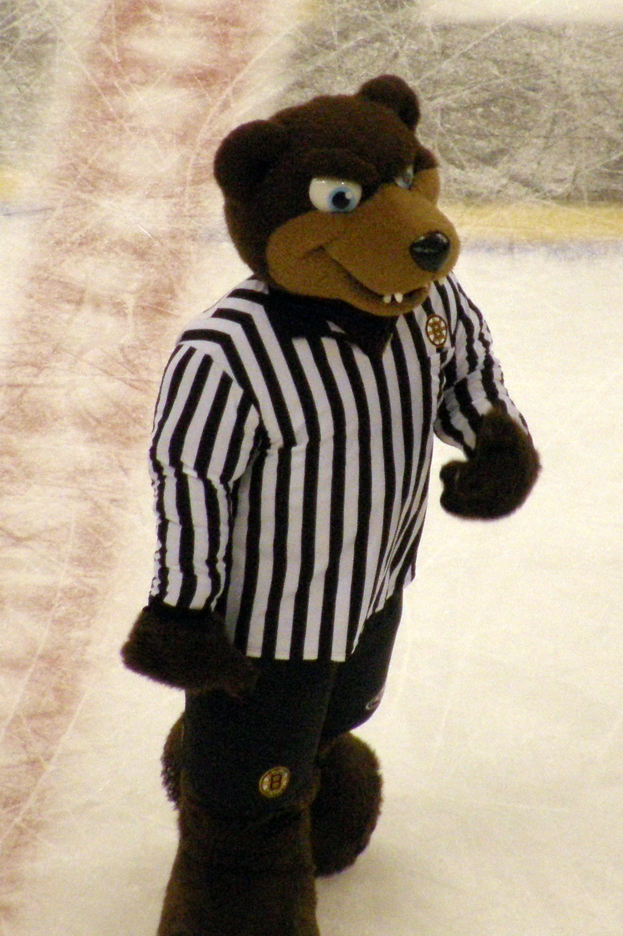 The Boston Mascot plays referee for the 5 minutes of Fame. I suspect the ref really can't see that well. Washington Capitals at Boston Bruins, February 2, 2010